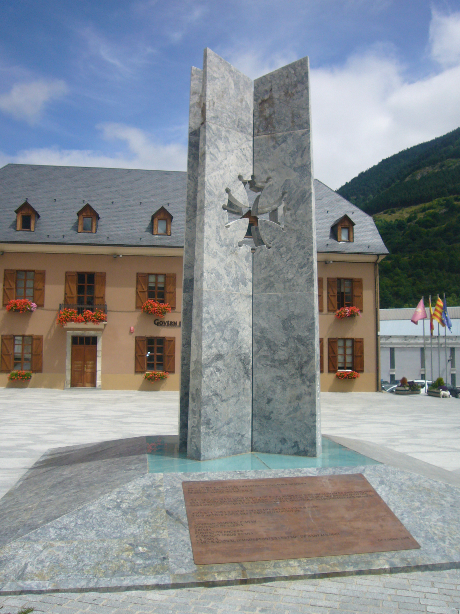 Sculpture in honor of the Aranese language and culture, located in Vielha. Inaugurated in October 2008. Designed by Andre Ricard Sala. It includes an Occitan cross in the center